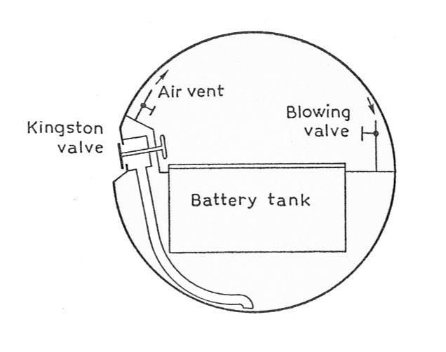 Fig. 1 Evolution of the submarine saddle tank. Pre-saddle tank design, of WW1